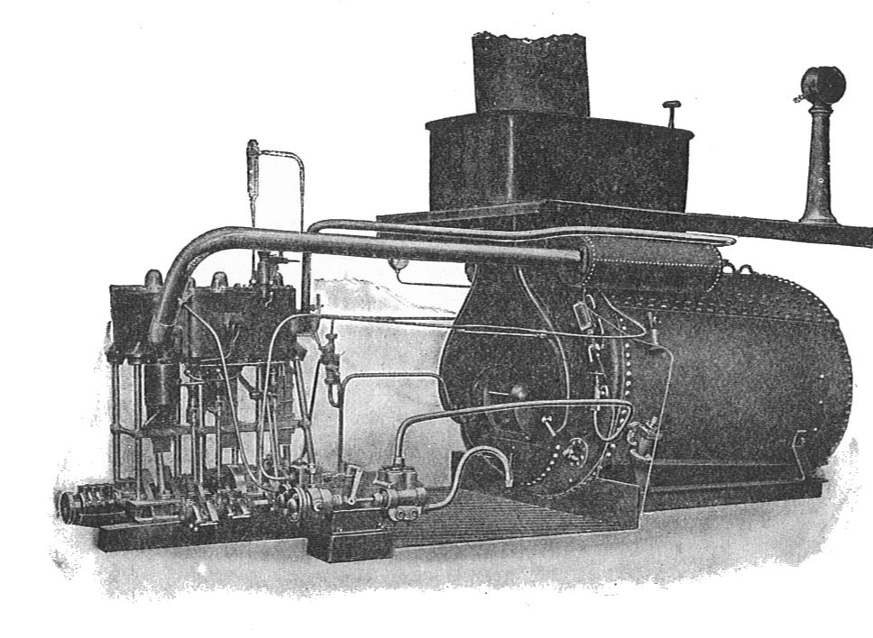 Steamboat plant, with Savery boiler (Rankin Kennedy, Modern Engines, Vol V).jpg